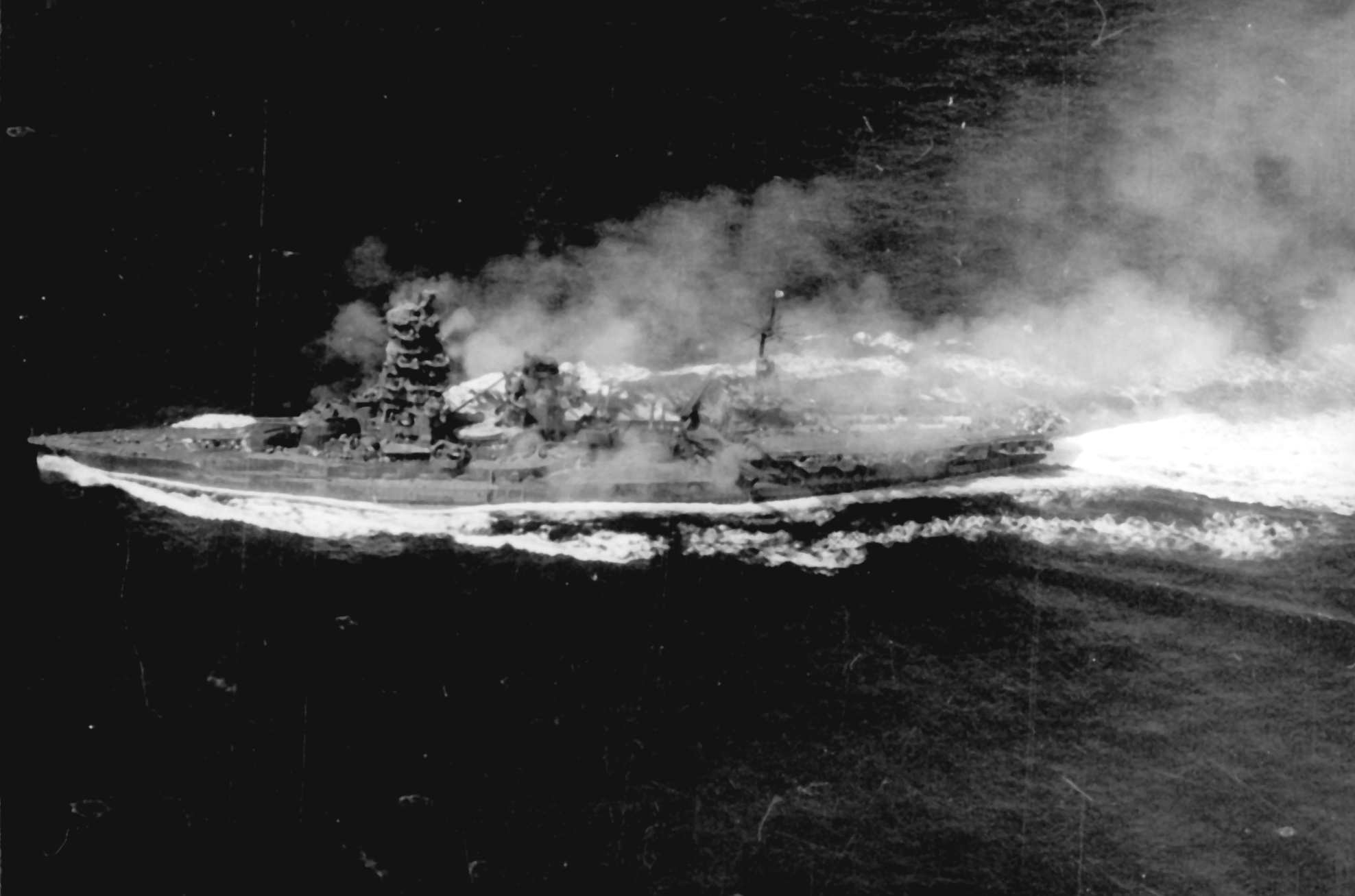 The Japanese battleship Ise underway during the Battle of Leyte Gulf, 25 October 1944. The photo was taken by a U.S. Navy plane from the aircraft carrier USS Essex (CV-9).